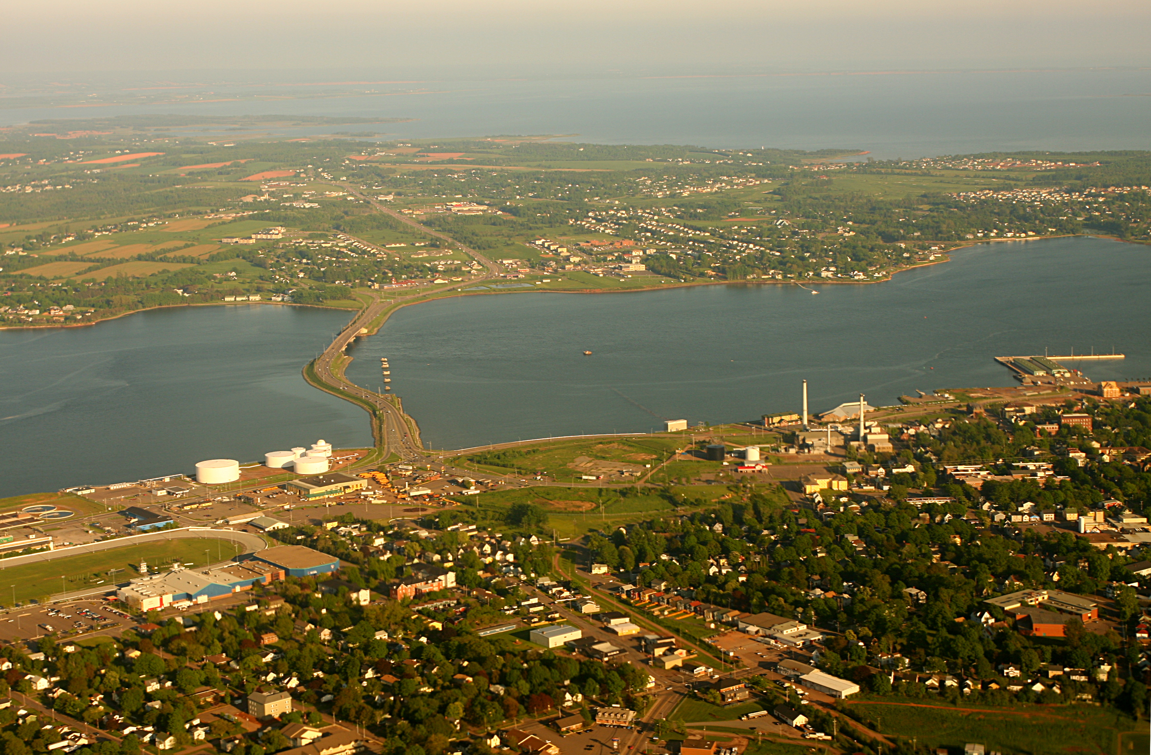 The track, bridge to stratford, and I live here as well.